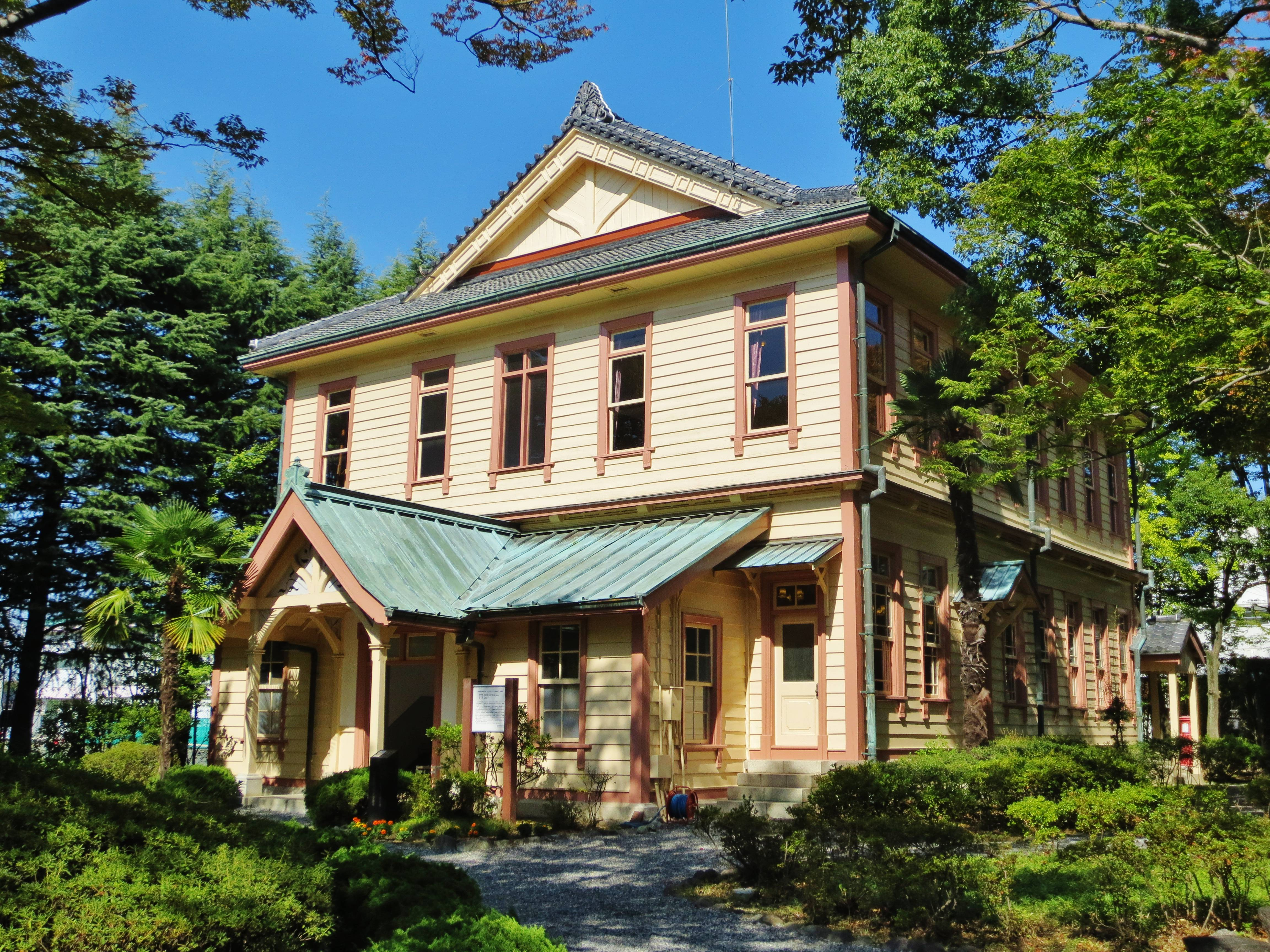 Former Jomo Muslin Office.